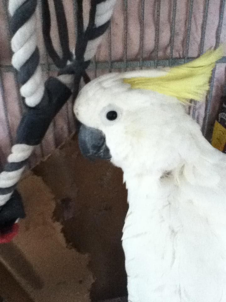 This is Oscar, a Yellow Crested Cockatoo parrot and family pet. The image was taken in the United Kingdom; South Wales to be exact, and he was four years old at the time.